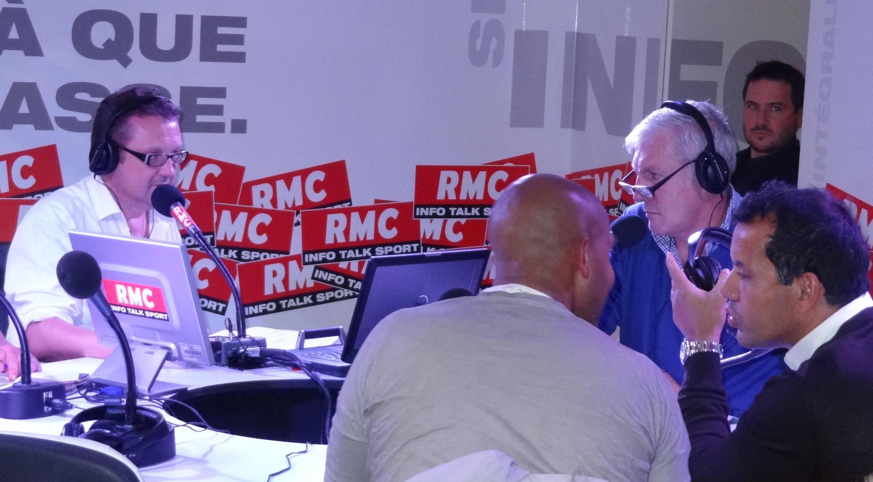 Luis Attaque on RMC (Christophe Paillet, Luis Fernandez, Olivier Dacourt, Ali Benarbia)